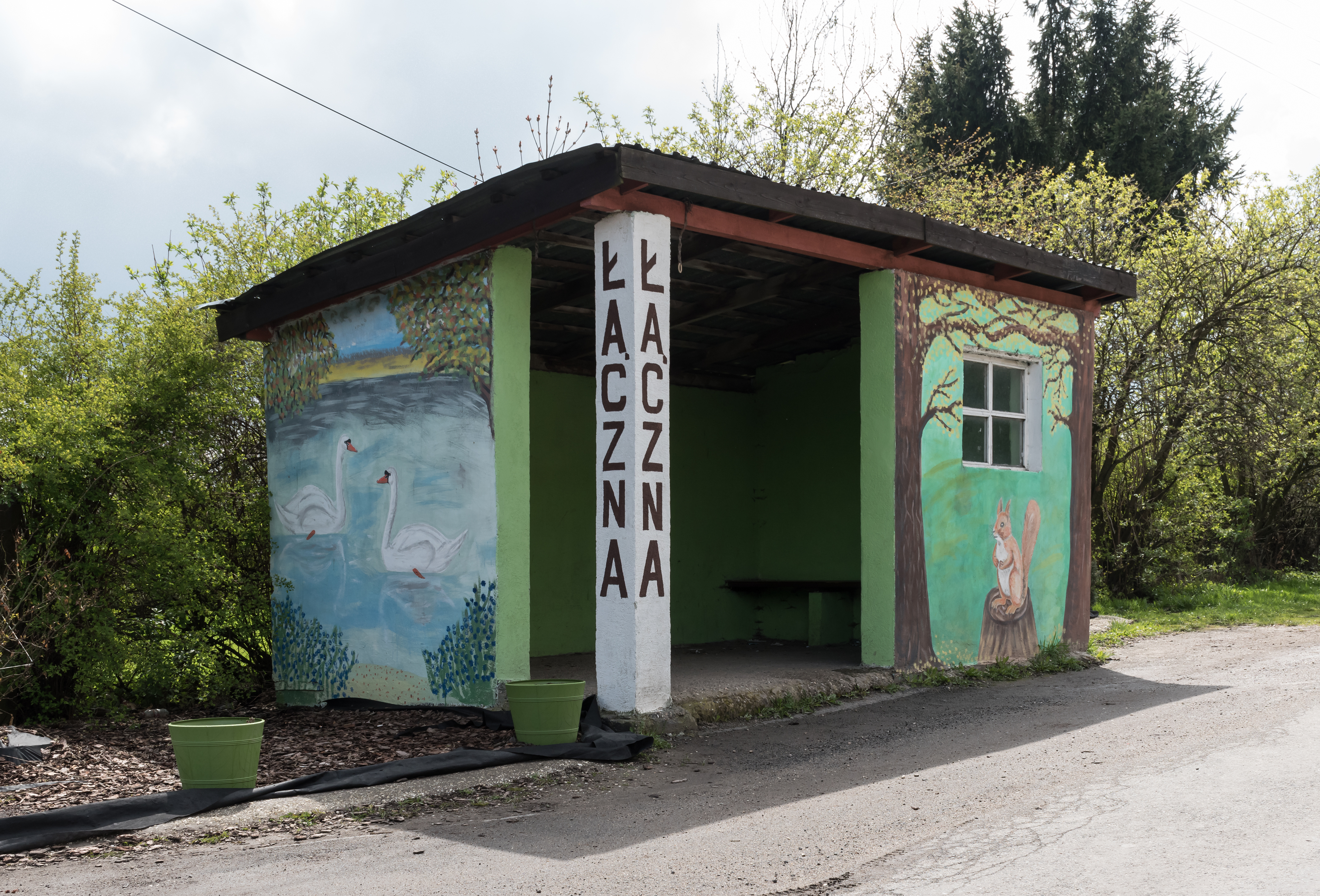 Bus stop in Łączna